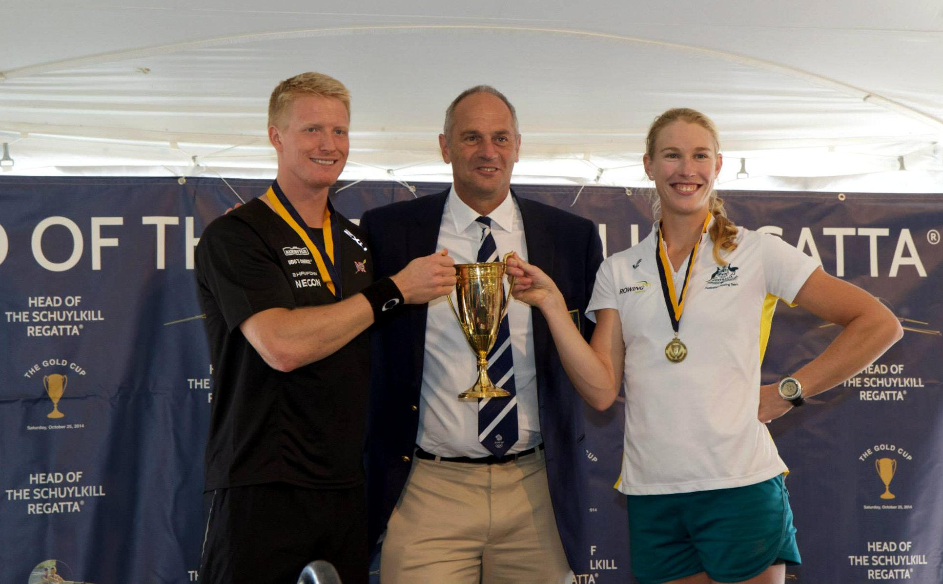 Kjetil Borch and Kim Crow presented Gold Cup by Sir Steven Redgrave